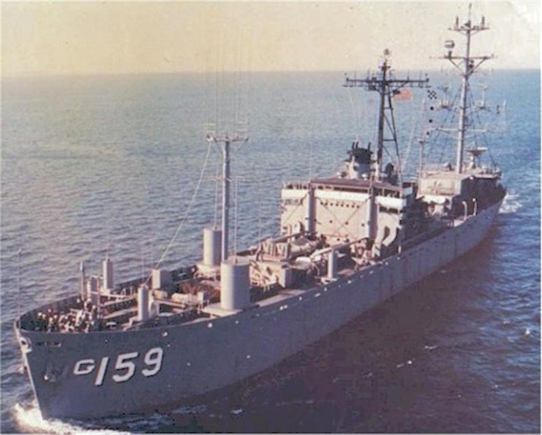 USS Oxford (AG-159) underway, date and location unknown. US Navy photo